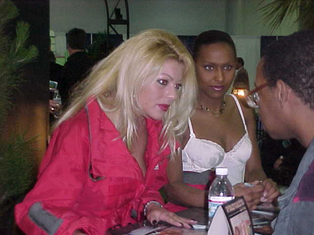 Monique Covet and Bettina Campbell (Private) CES, January 7-10, 1999 in Las Vegas